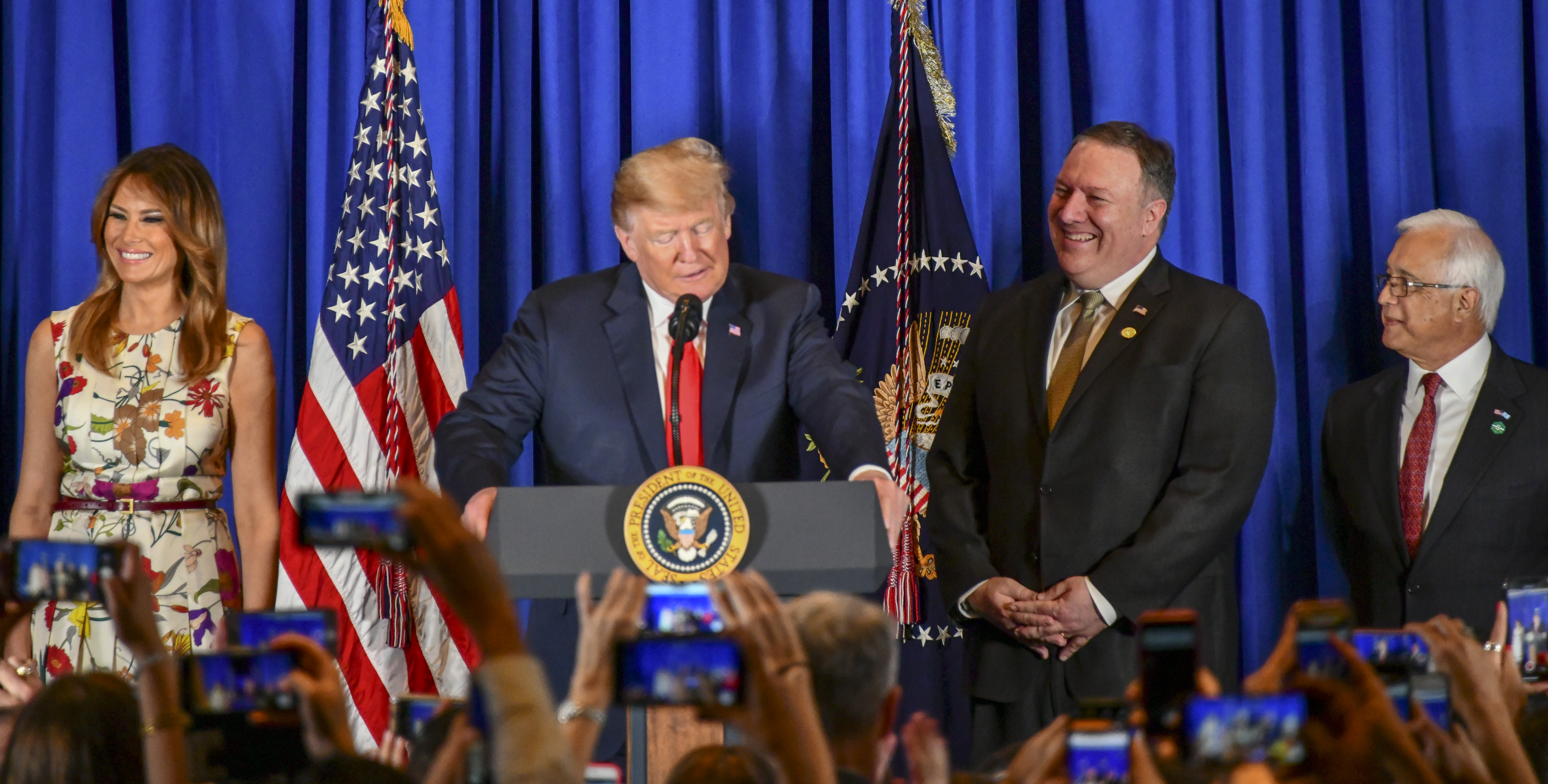 President Donald Trump conducts a meet and greet with the staff and families of US Embassy Buenos Aires along with Secretary Michael R. Pompeo in Argentina, 30 November 2018. [State Department photo/ Public Domain]